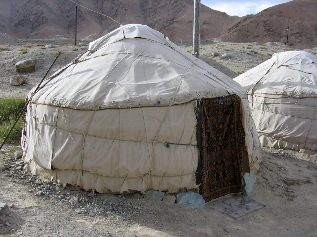 Hotel's yurt in Karakul lake, close to Karakoram Highway in Xinjiang province (China).